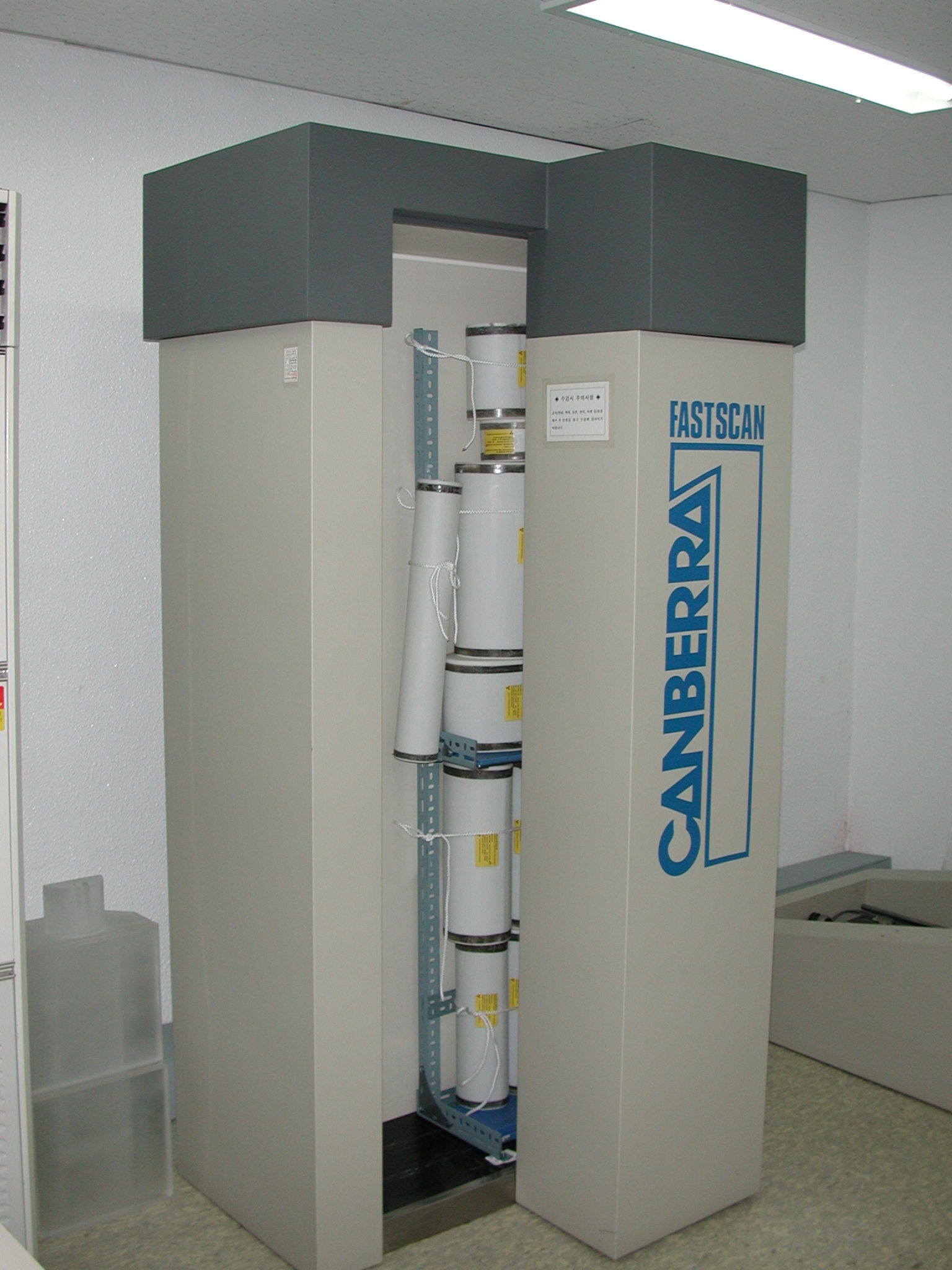 Stand-up whole body counter